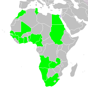 Teams in 2008 Africa Cup of Nations